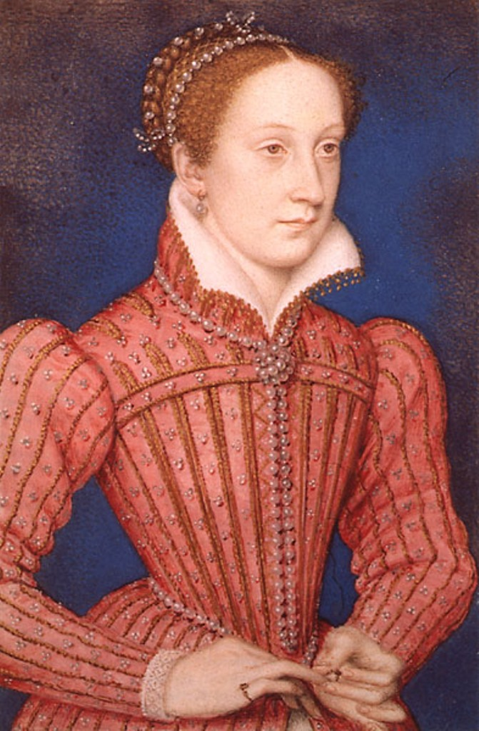 Mary Stuart, Queen of Scots, at about the time of her marriage to the French heir Francis of Valois, the later King Francis II of France, son of King Henry II of France and Catherine de Medici, Royal Collection of Her Majesty Queen Elizabeth II